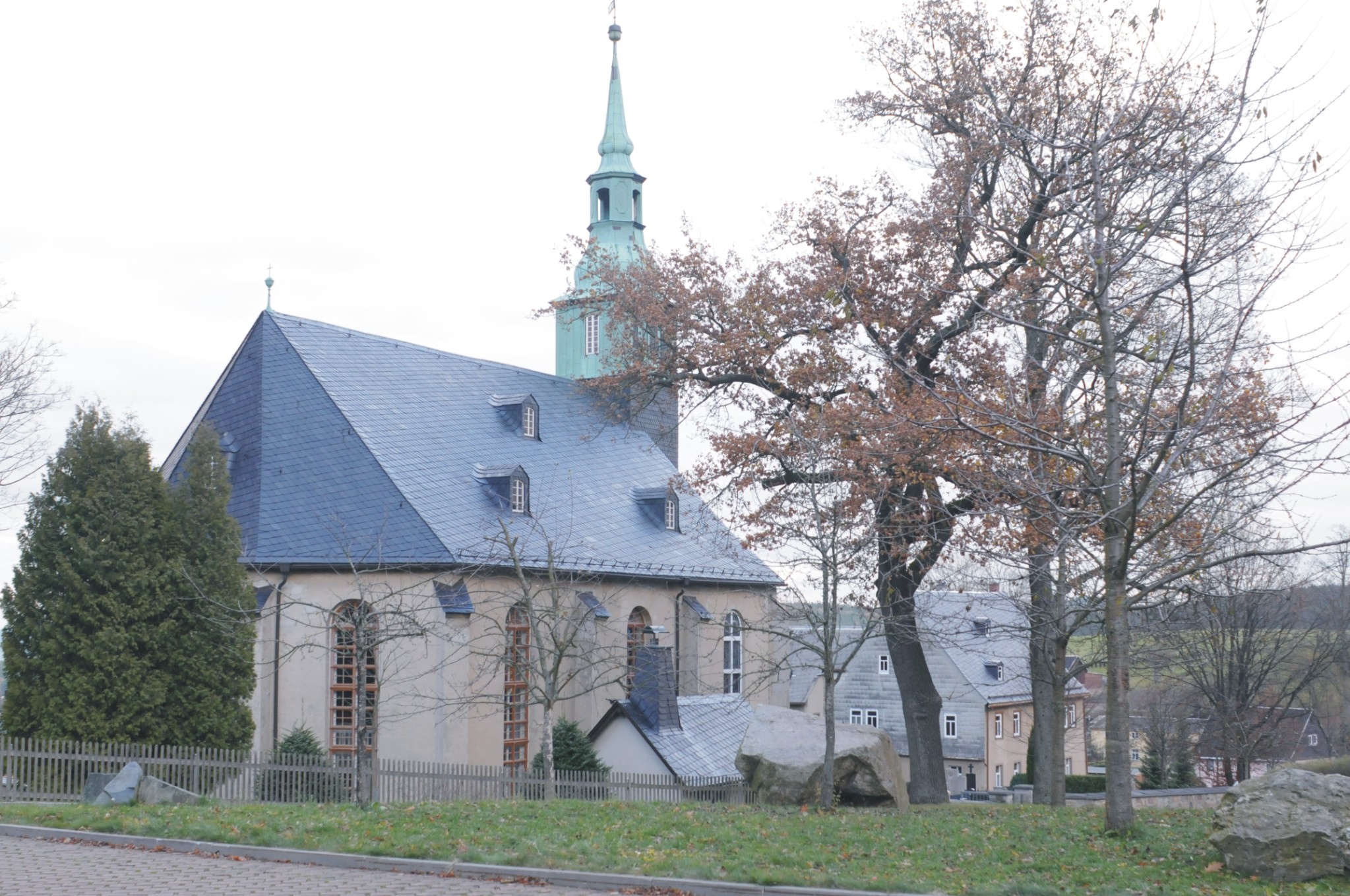 Church in Rothenkirchen, municipality Steinberg (Saxony, Germany)